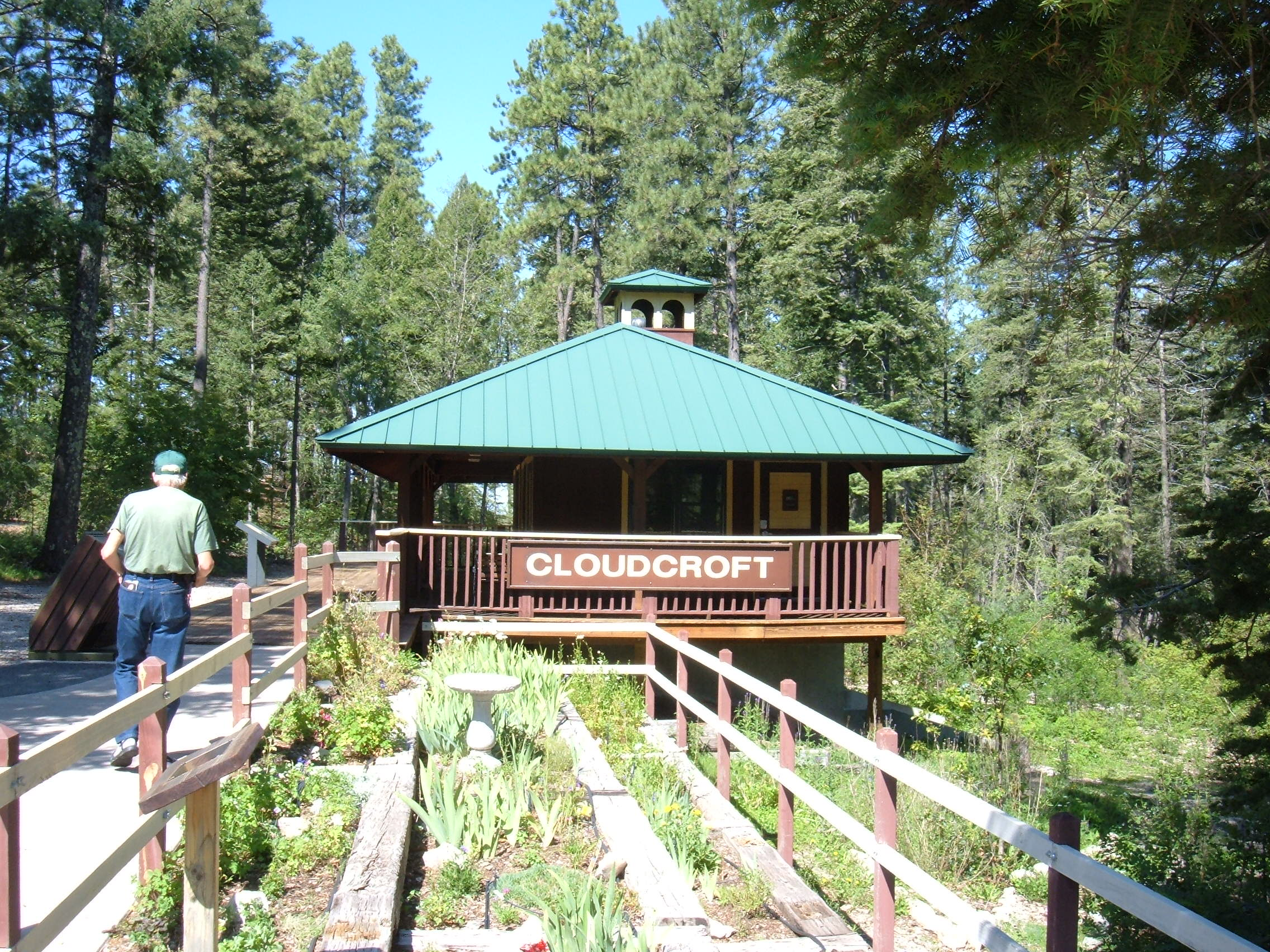 Train Depot replica at the head of the Cloud-Climbing Rail Trail, located in the Trestle Recreation Area at the west end of Cloudcroft, New Mexico, off Highway 82.